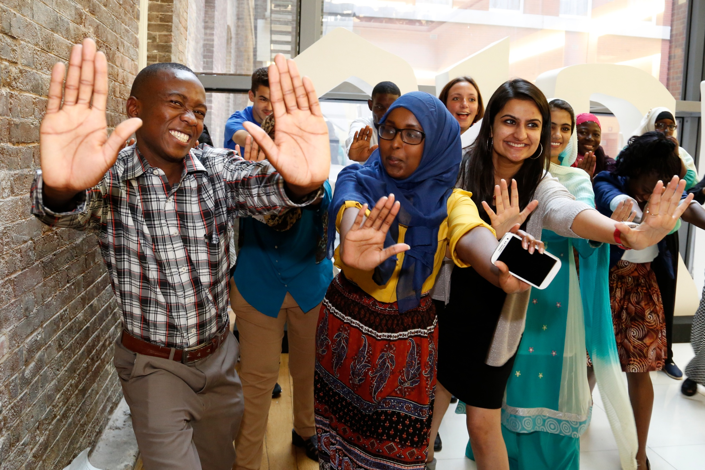 Youth For Change panel members push down some imaginary barriers at Youth For Change. #YouthForChange was an event for youth, by youth to help take action on girls' rights. It was a one-day conference that took place on Saturday 19th July 2014, at the headquarters of the Department For International Development in London. All images: Russell Watkins/Department for International Development. Available for free editorial use under Crown Copyright/Open Government License/Creative Commons - Attribution